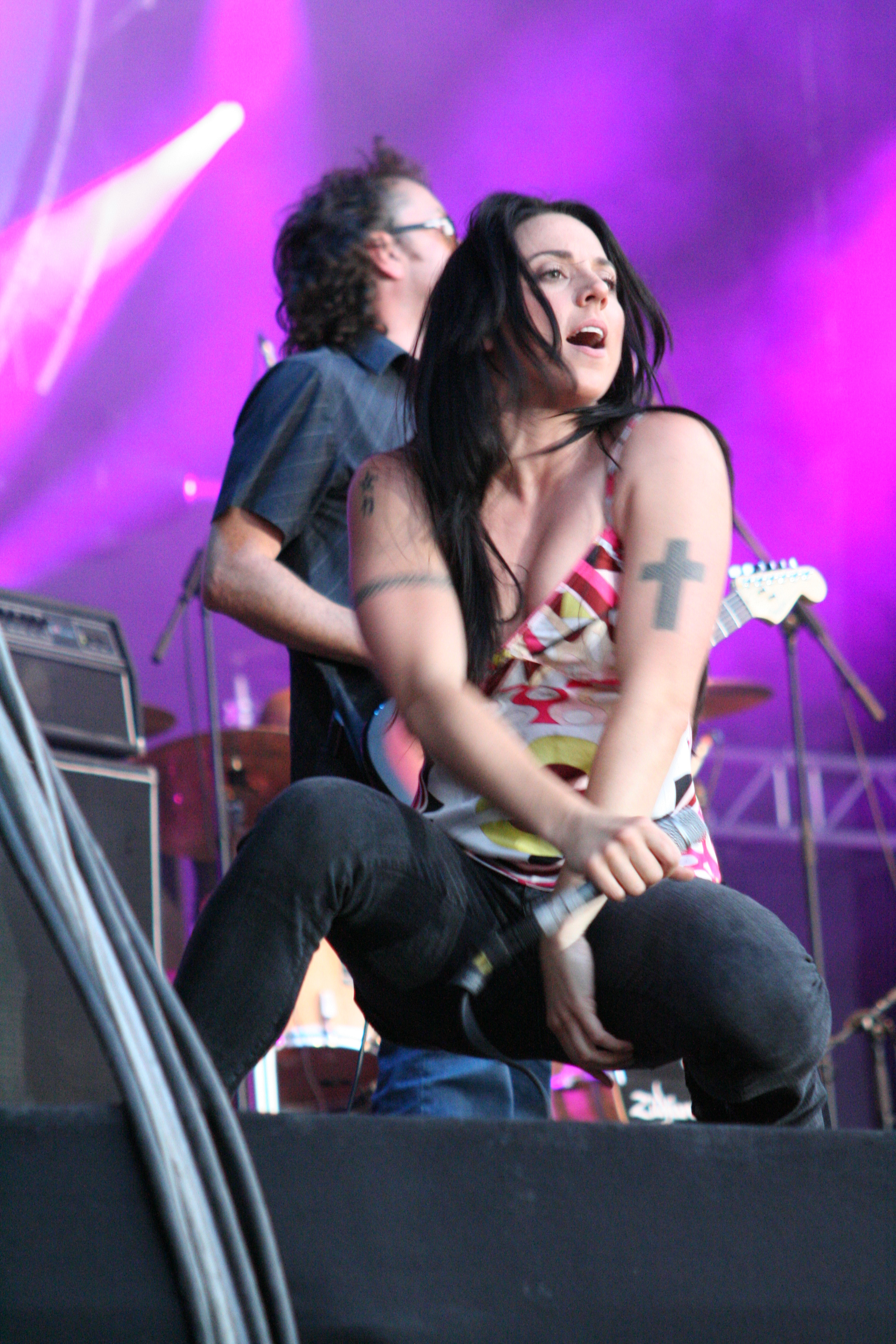 MelC bei der Arena Of Pop 2006- Nr. 003 MelC at Arena of Pop 2006 - No. 003